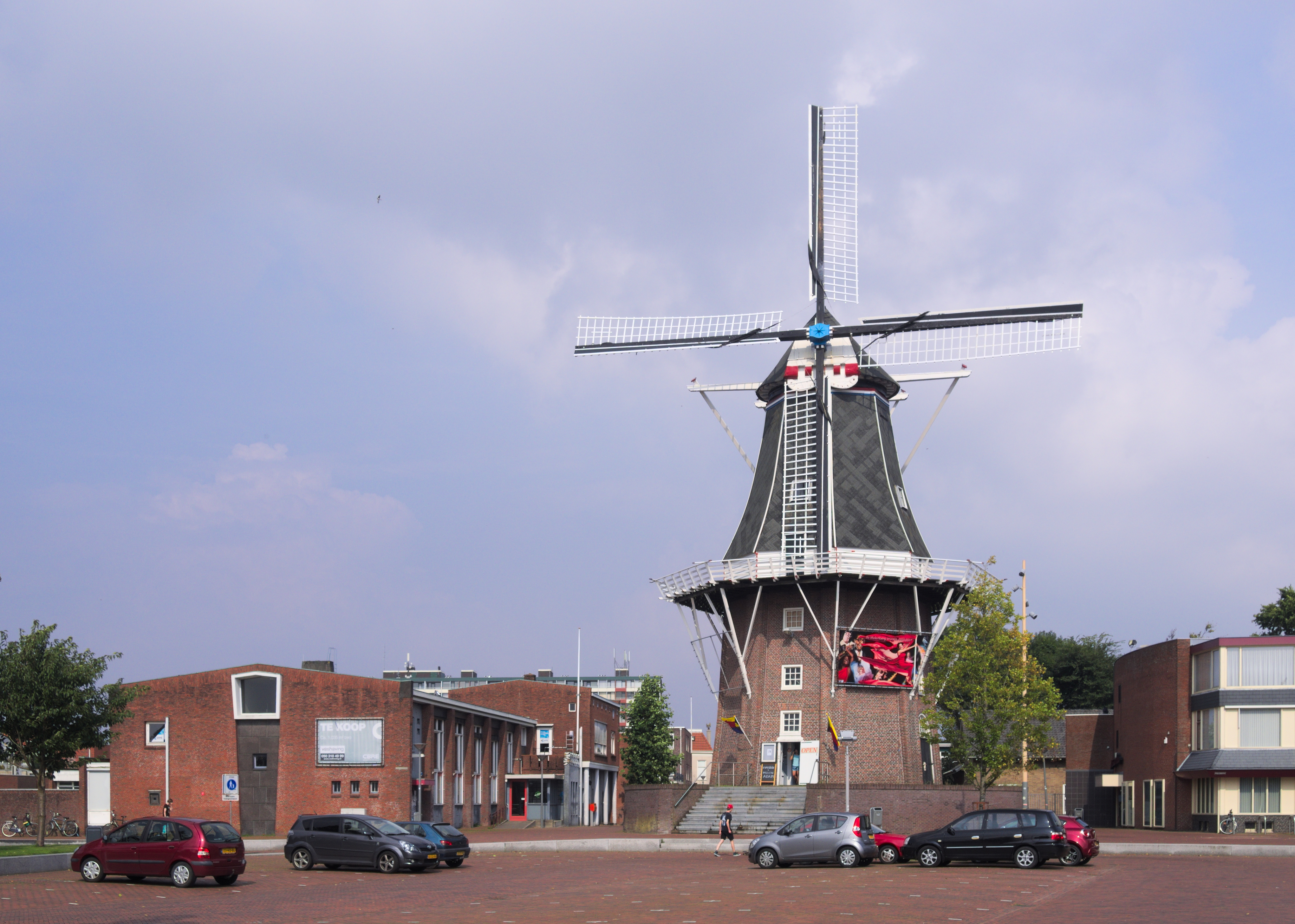 Windmill Adam, at Delfzijl.